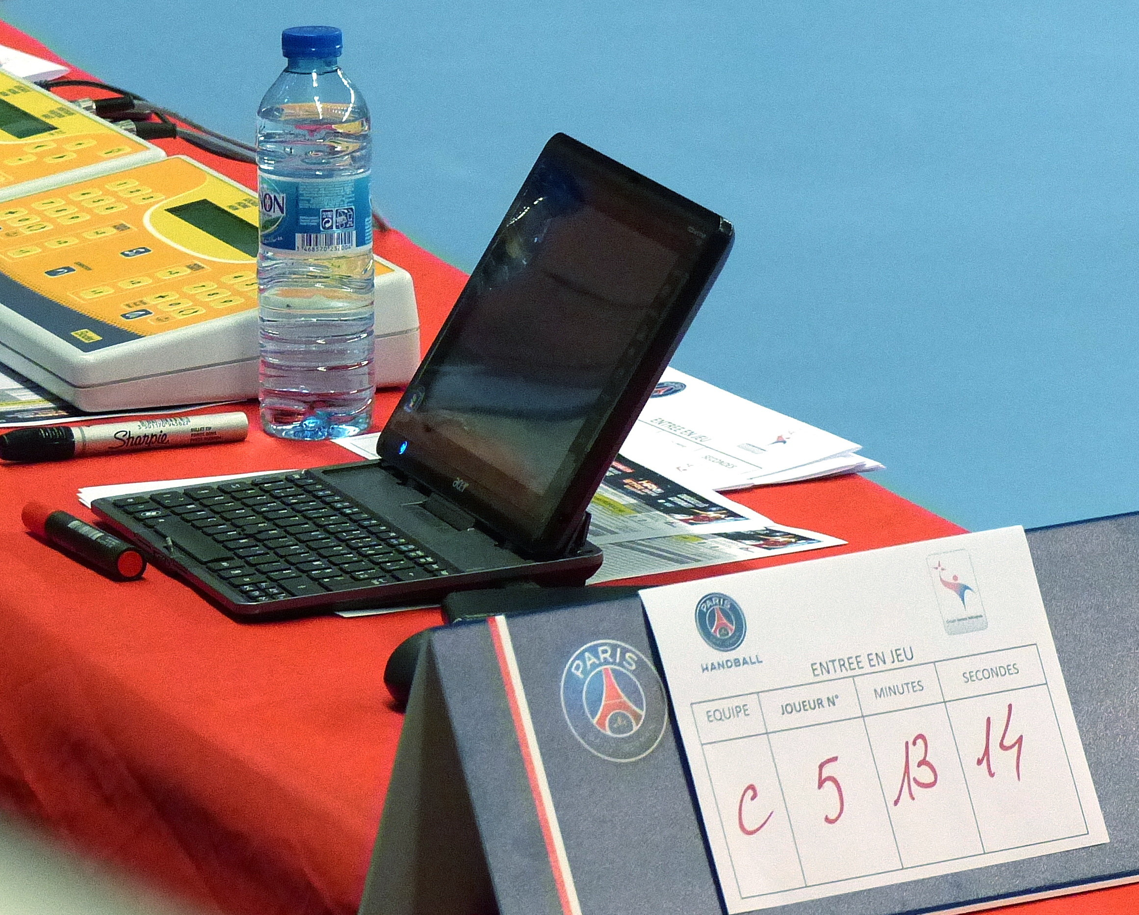 Exclusion sheet of player n°5 (2nd column) of team Cesson-Rennes (letter C in the 1st column). "13min14" is the time on the clock that marks the end of the exclusion. PSG Handball / Cesson-Rennes (french league) on Sept. 24, 2014